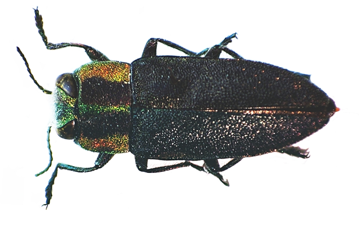 Anthaxia manca from East Hungary, stacking of three photos